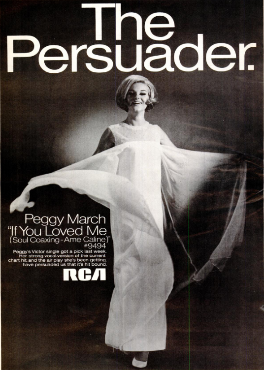 Advertisement for Peggy March's single If You Loved Me, 1968